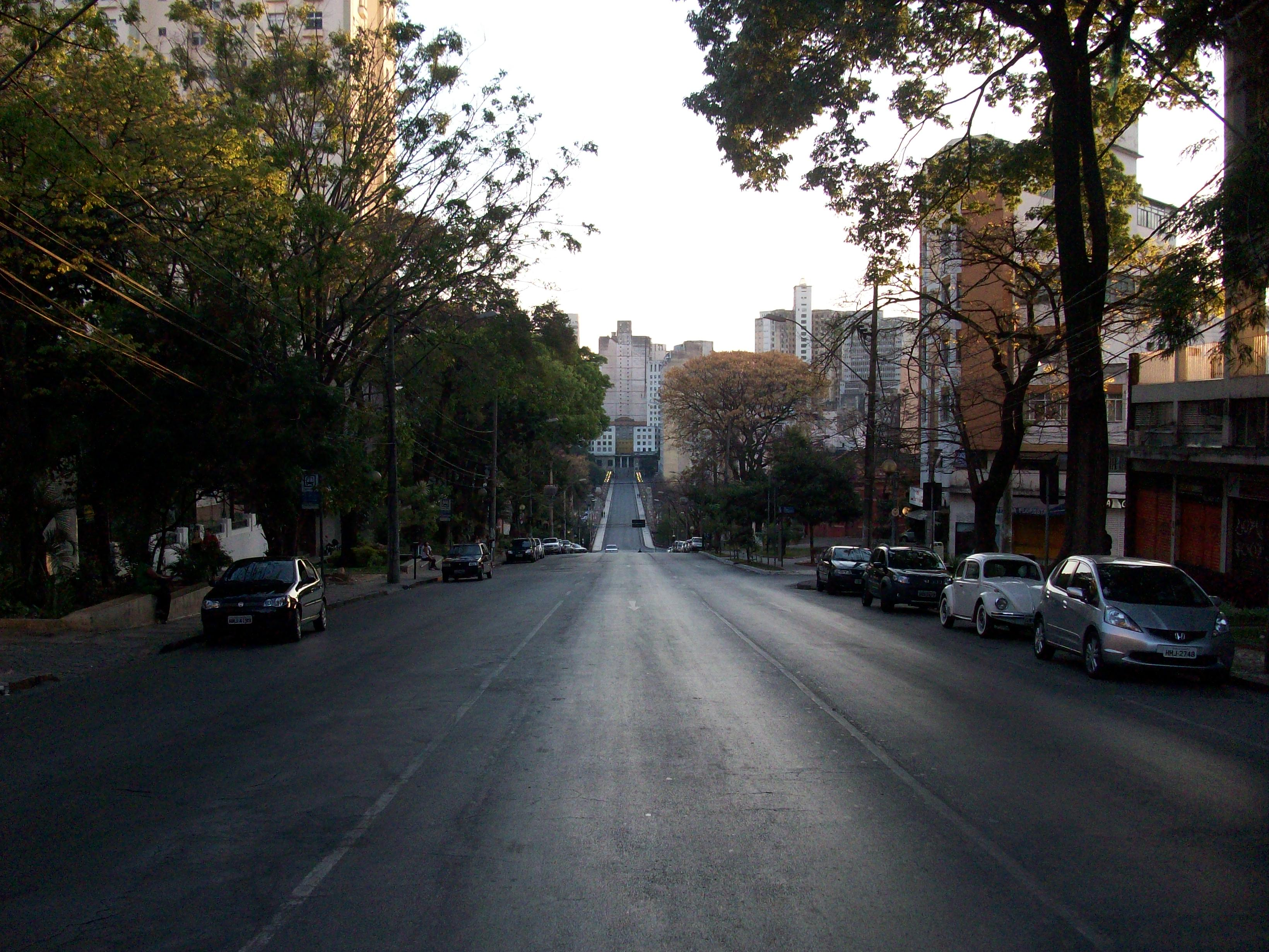 Assis Chateaubriand Avenue, Belo Horizonte, Minas Gerais, Brazil.